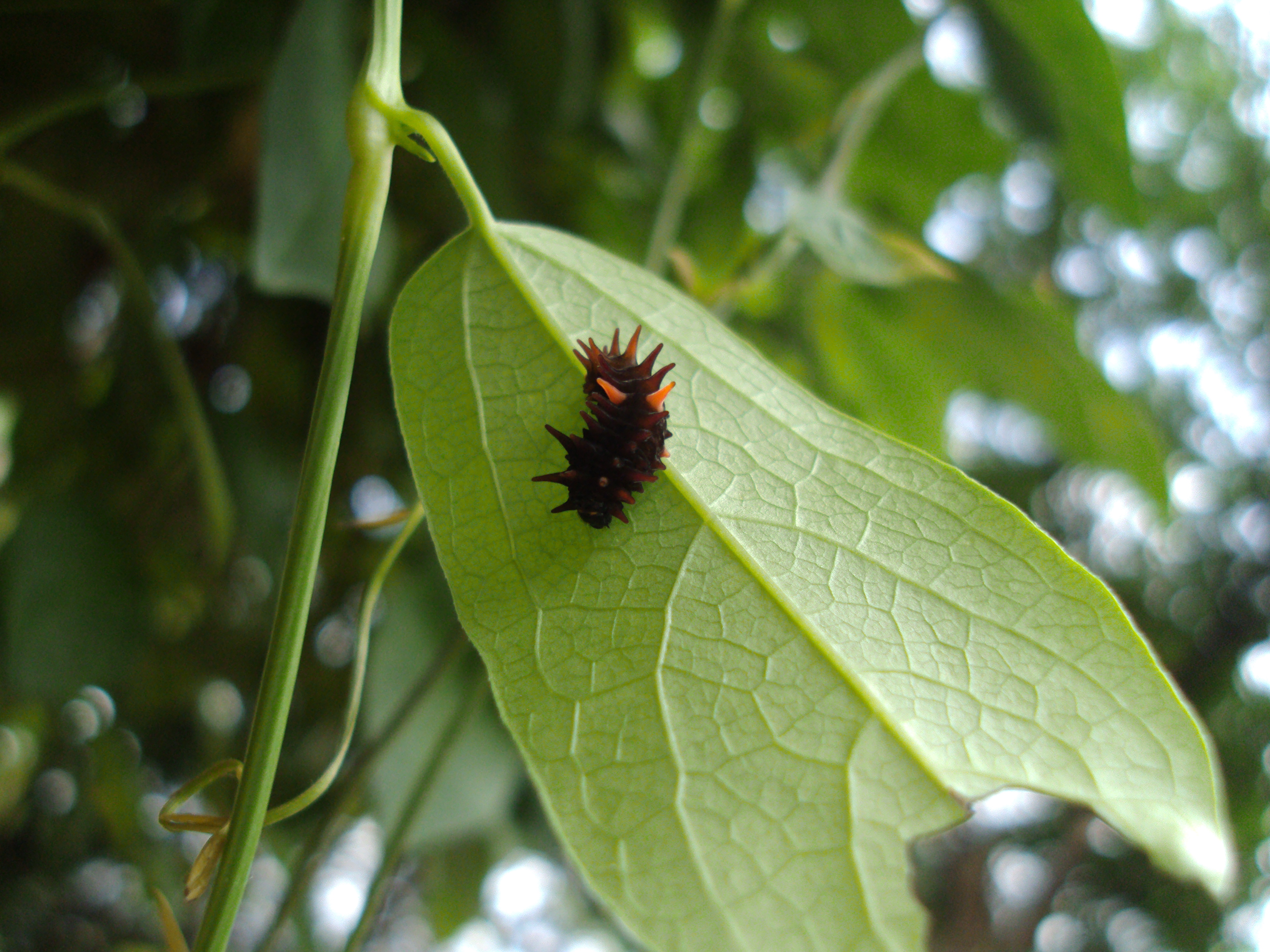 larva of southern birdwing eating leaves of Aristolachia indica